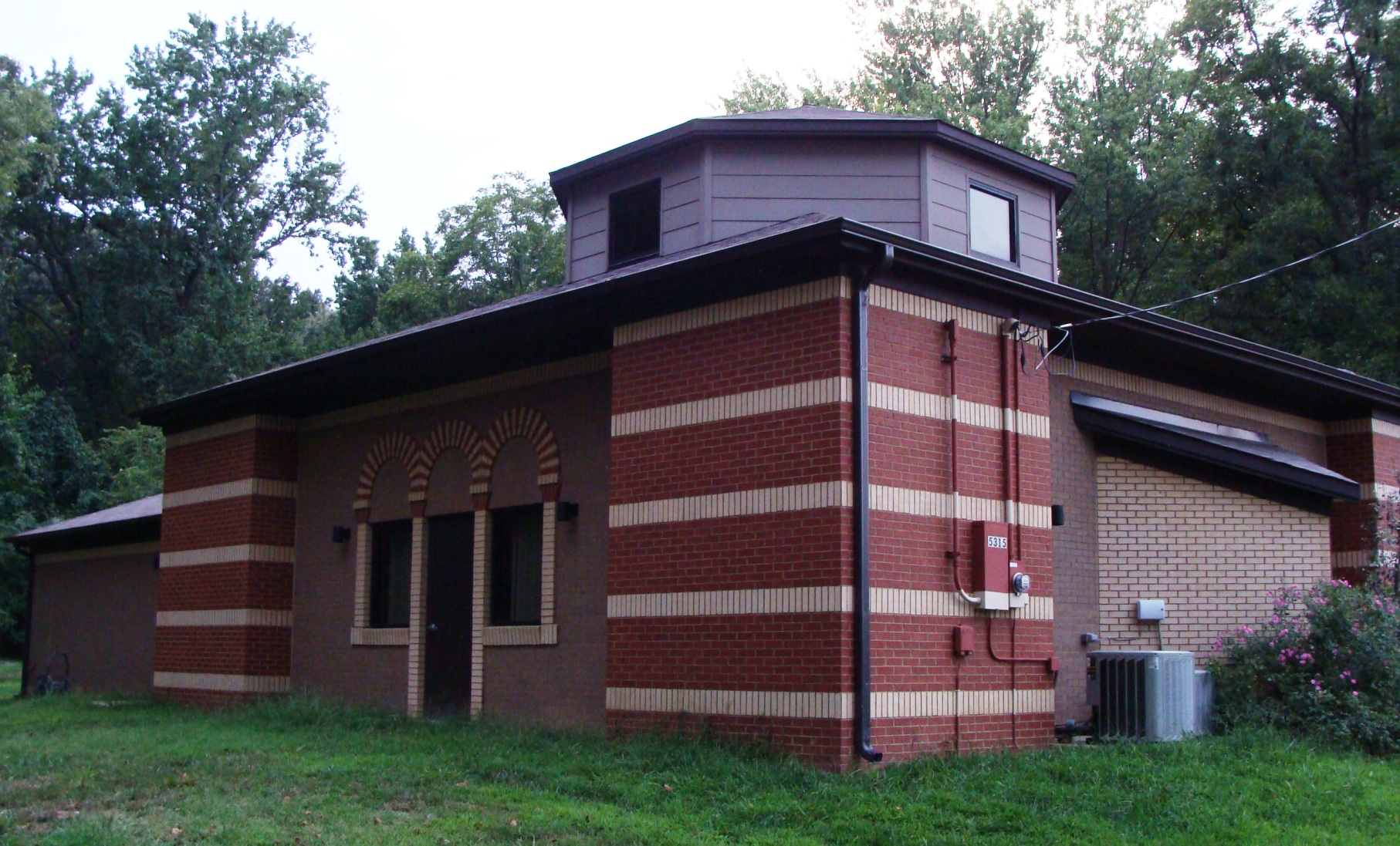 Memphis Al-Rasool Mosque, Shia denomination, Memphis, TN